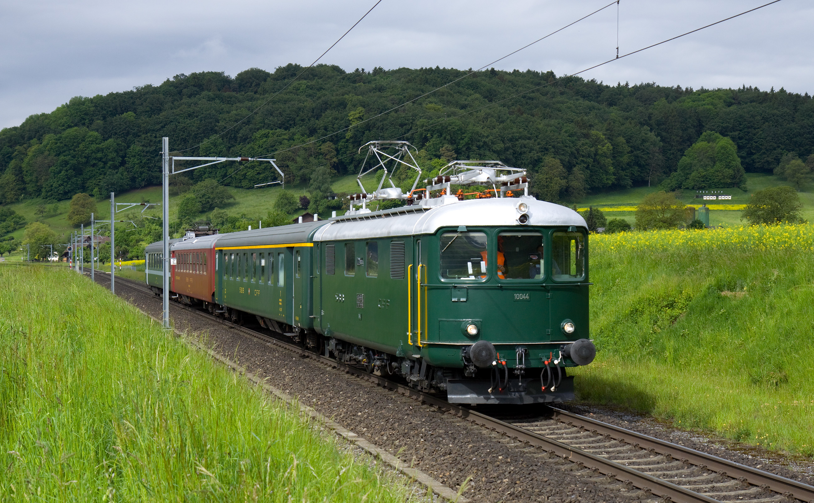 SBB Historic locomotive Re 4/4 I (second series without front doors and regenerative braking) with one of the two "federal council" coaches, which were (among others) used to take state guests through the country, and are now used for charter trains like this one.